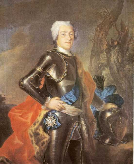 Portrait of Johann Georg, Chevalier de Saxe (1704–1774)